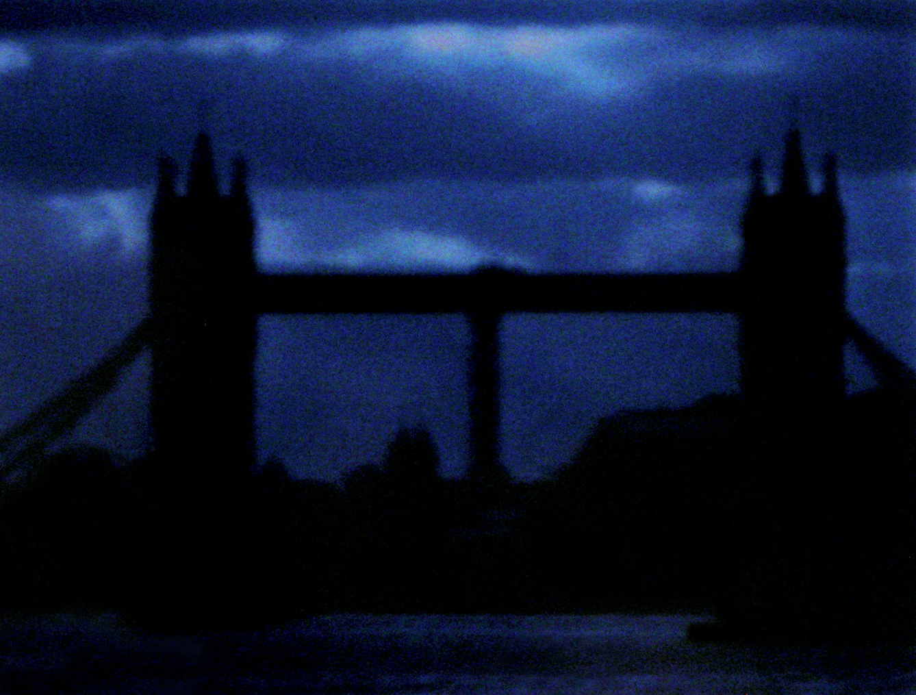 From the 1994 artist video 'Deep, dark water' by Henry Bond. The image depicts Tower Bridge, London, England.